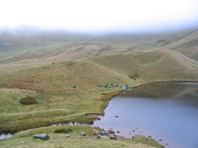 Wild camping at Llyn Cwm Llwch. A popular wild camping spot, as it is sheltered and level. On a December day a little before Christmas we were surprised to find a group already in residence.